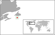 Created using GraphicConverter from User:Vardion's Image:BlankMap-World-v6.png for the closeup and Image:BlankMap-World.png for the mini-map.